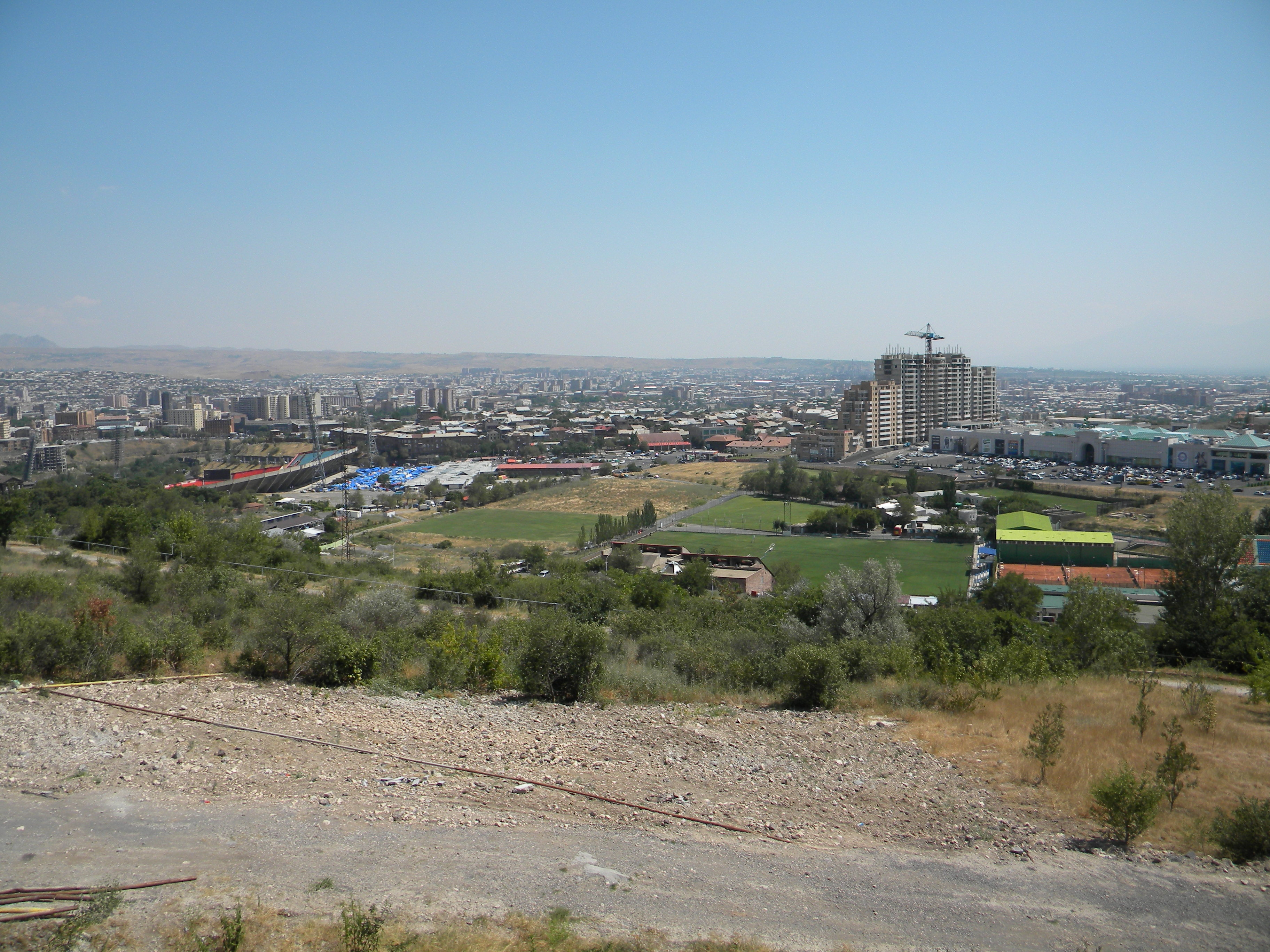 Pyunik stadium surrounded with the training ground